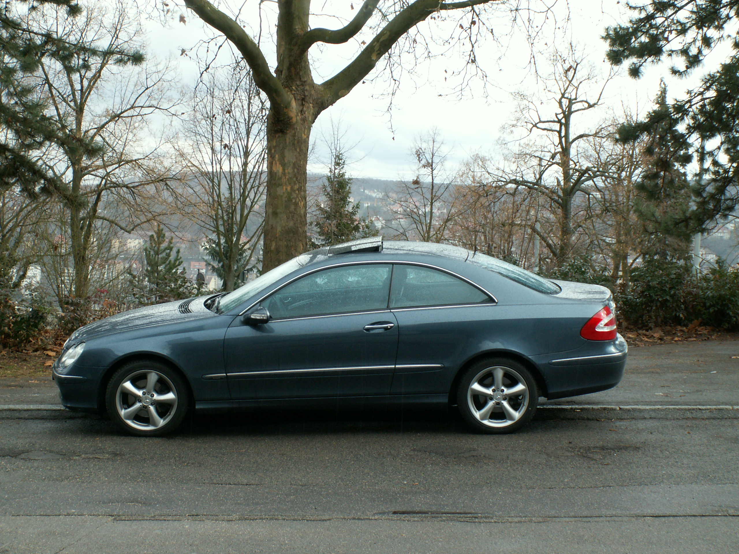 The picture shows a Mercedes-Benz CLK 270 CDI Coupé (C209), built March 2005